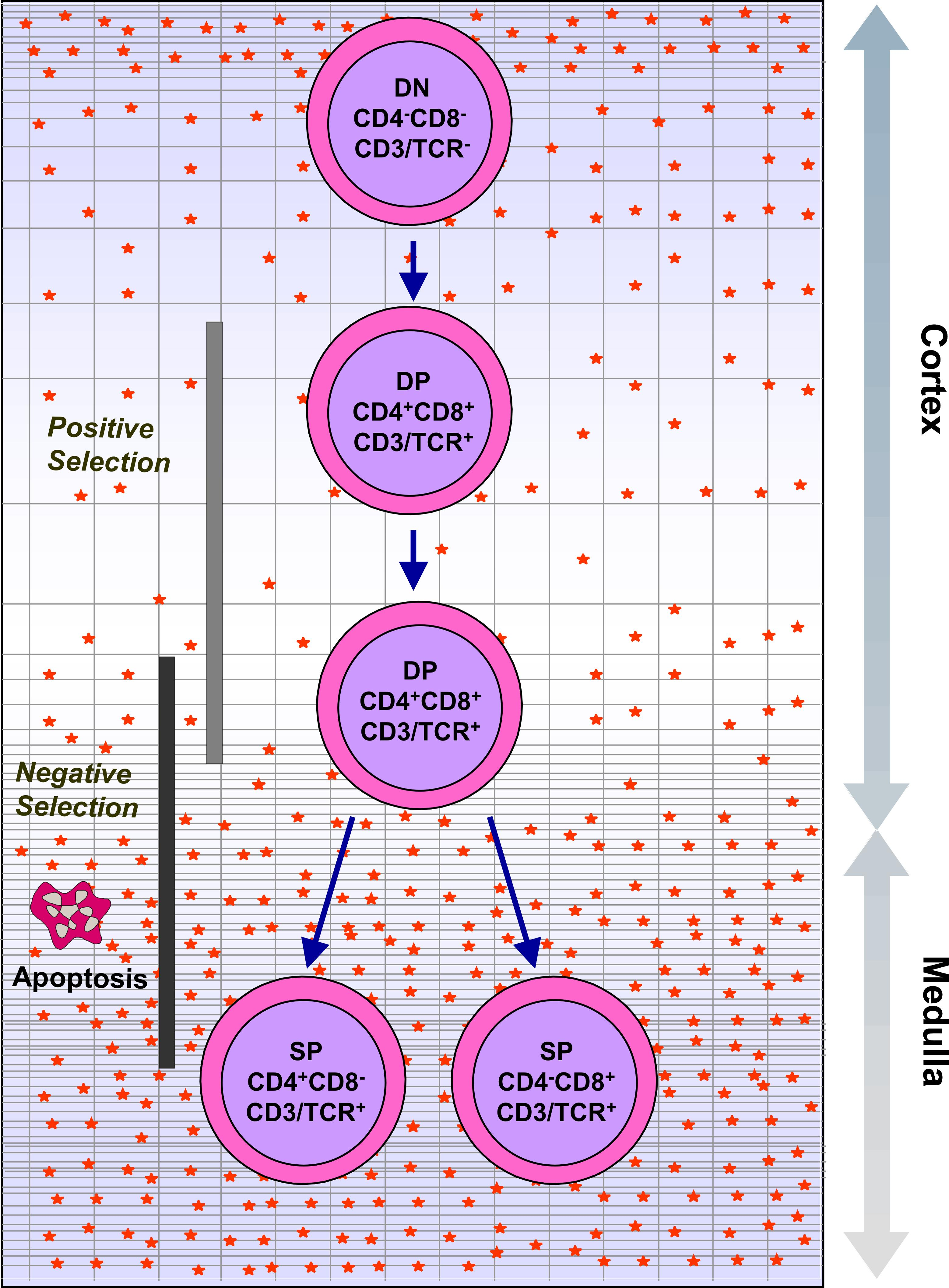 The Normal Process of Intrathymic T Cell Differentiation